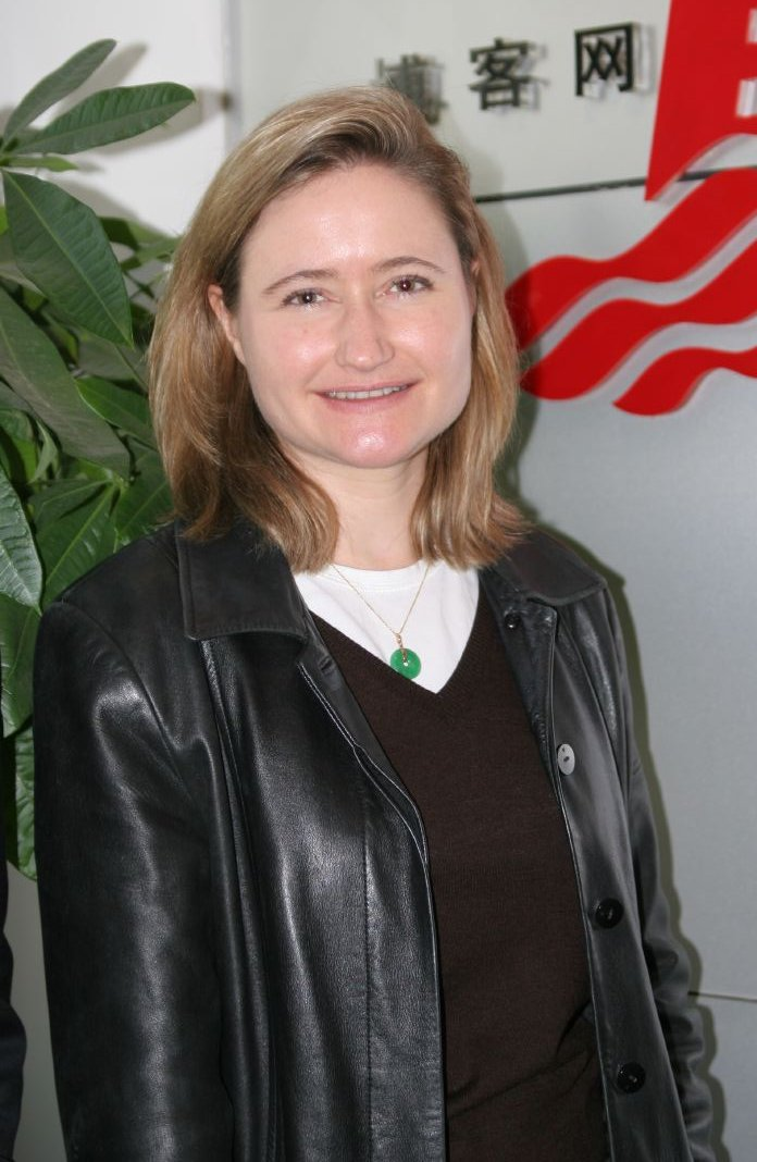 Journalist Rebecca MacKinnon. Crop of original source photo.